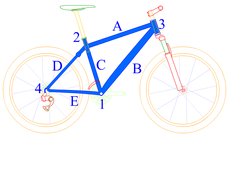 Drawing showing parts from a bike frame